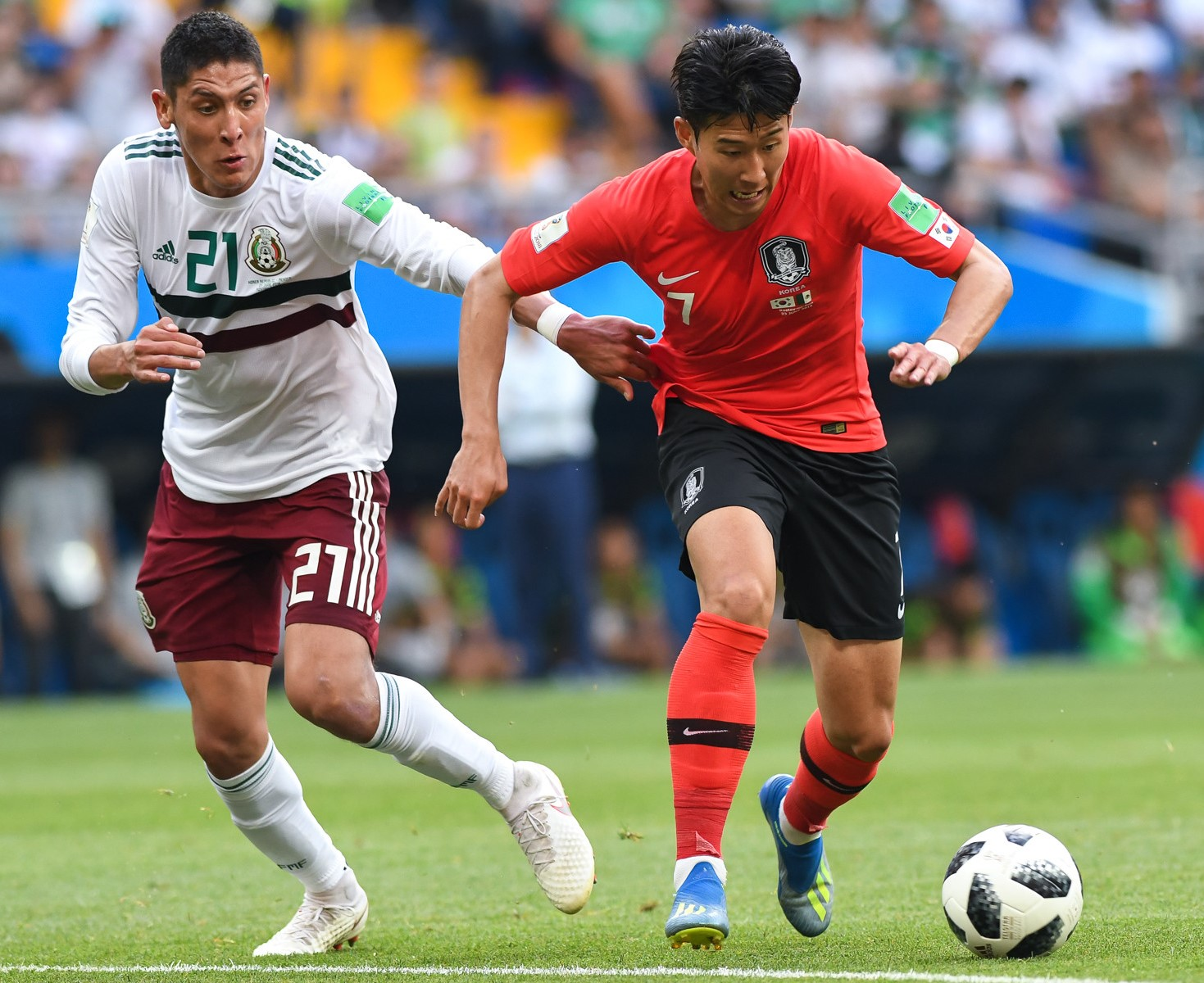 Mexico and South Korea match at the FIFA World Cup 2018-06-23